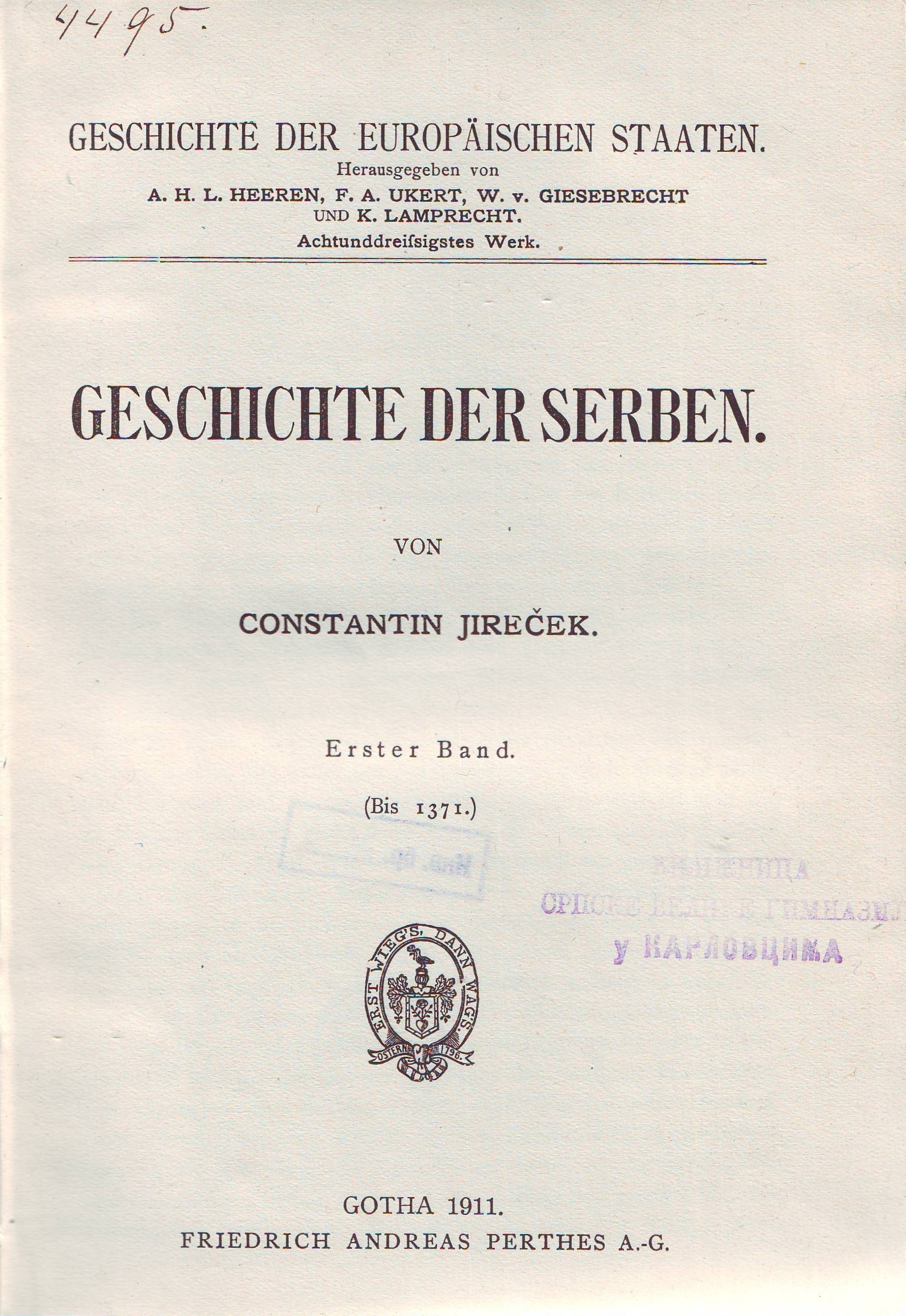 Cover of the first volume of Geschichte der Serben (1911) by Konstantin Jireček. Srpski (latinica): Naslovna strana prve knjige Geschichte der Serben (1911) Konstantina Jirečeka.